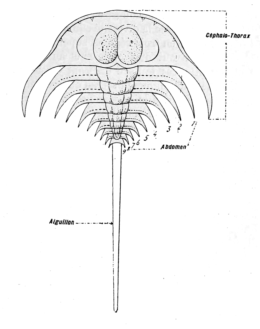 Belinurus